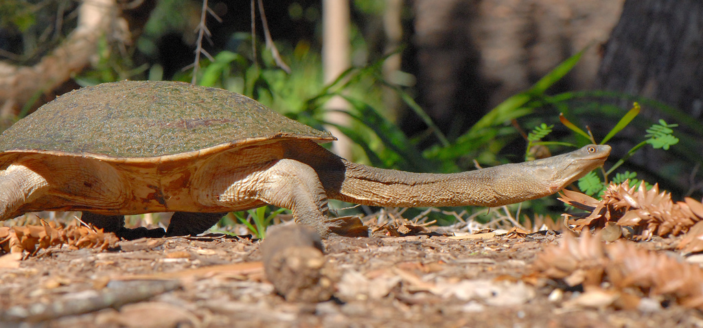 Common Snake-Necked Turtle